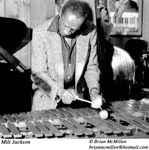 Milt Jackson at Bach Dancing & Dynamite Society, Half Moon Bay CA. Photo by Brian McMillen /